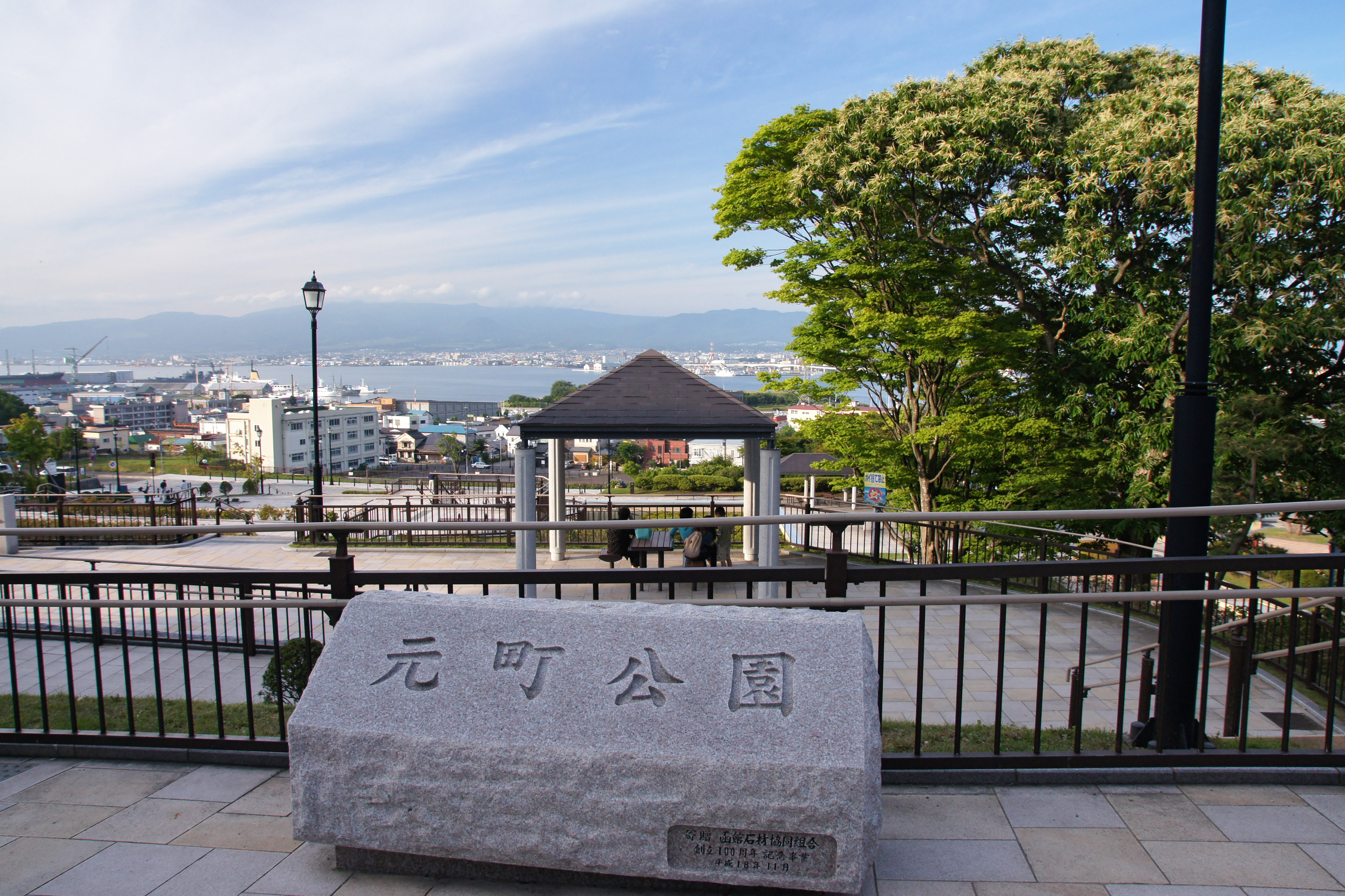 Motomachi_Park in Hakodate, Hokkaido prefecture, Japan